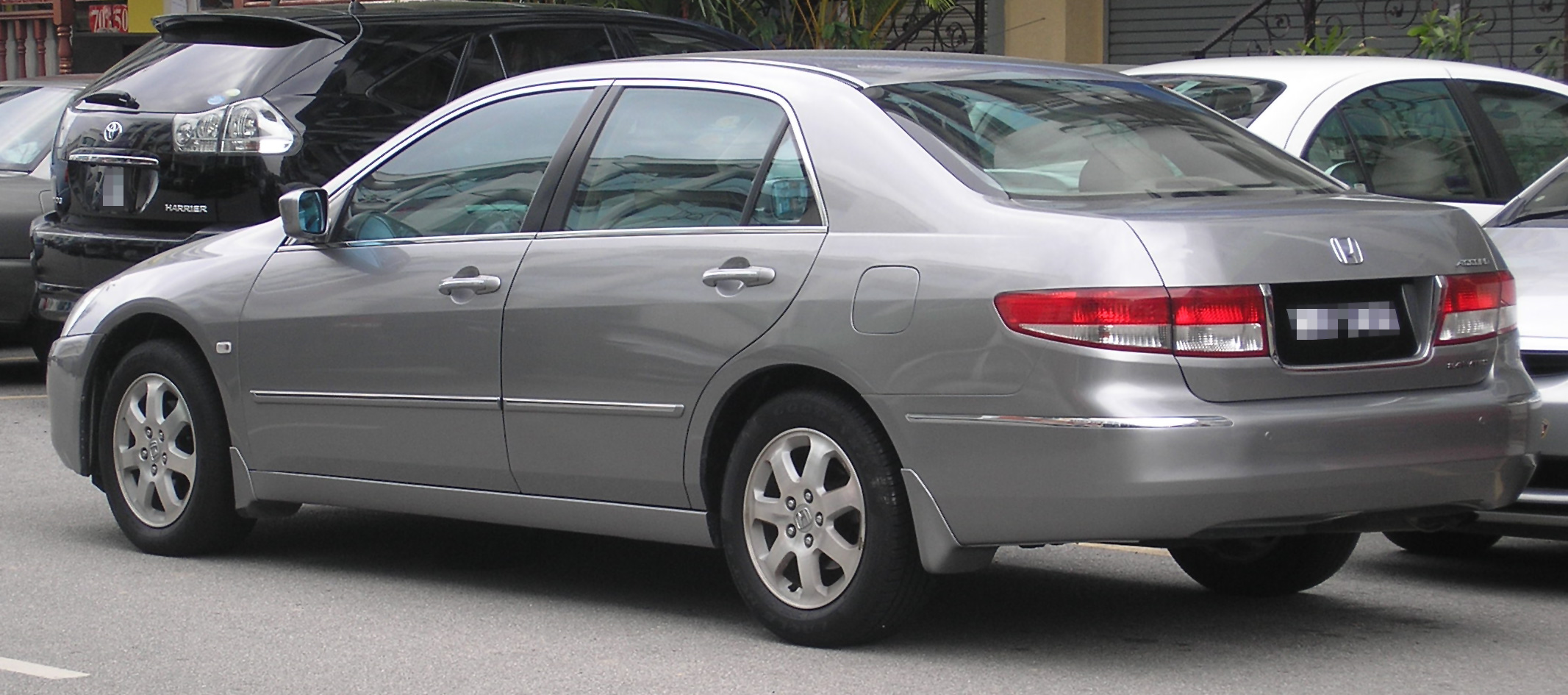 Rear-side shot of a seventh generation Honda Accord, in Serdang, Selangor, Malaysia.